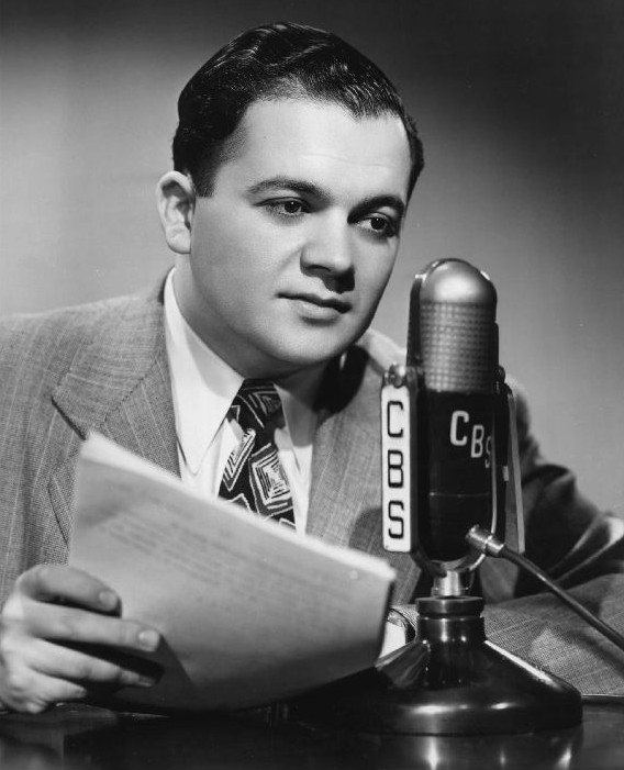 Photo of radio and television announcer Bern Bennett.